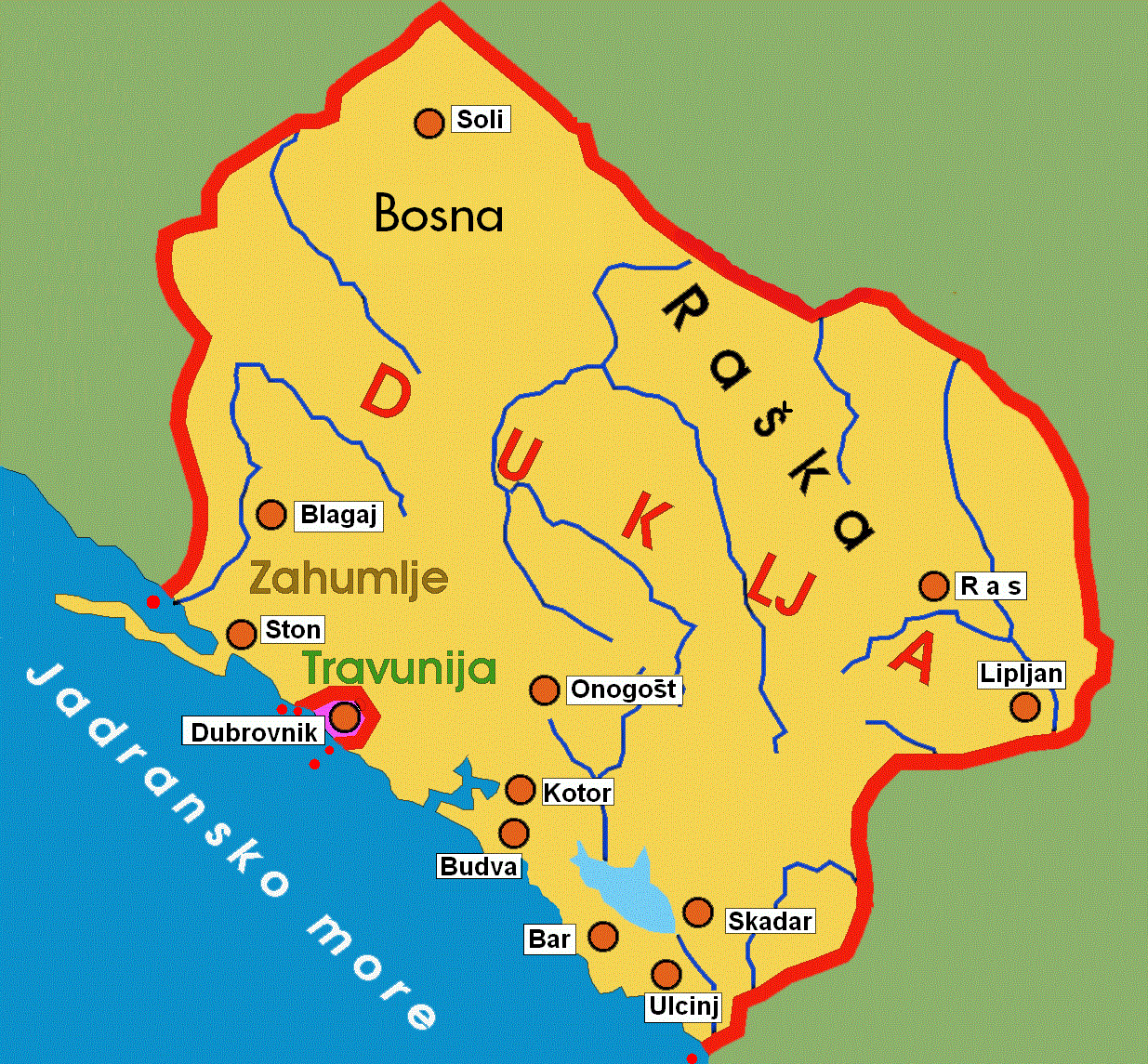 Kingdom Duklja, about 1100. years